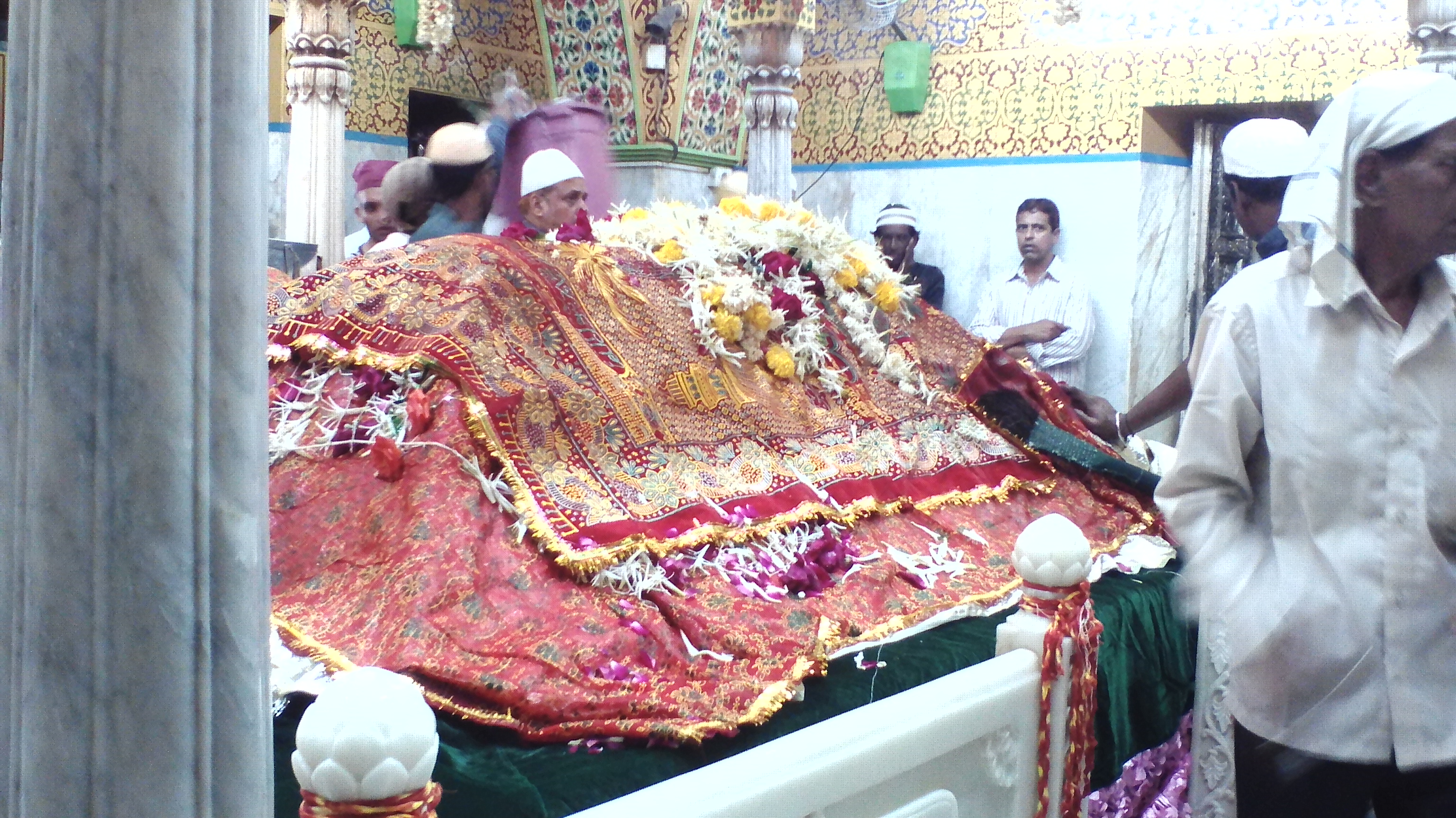 Mazaar of Makhdoom ali mahimi dargah